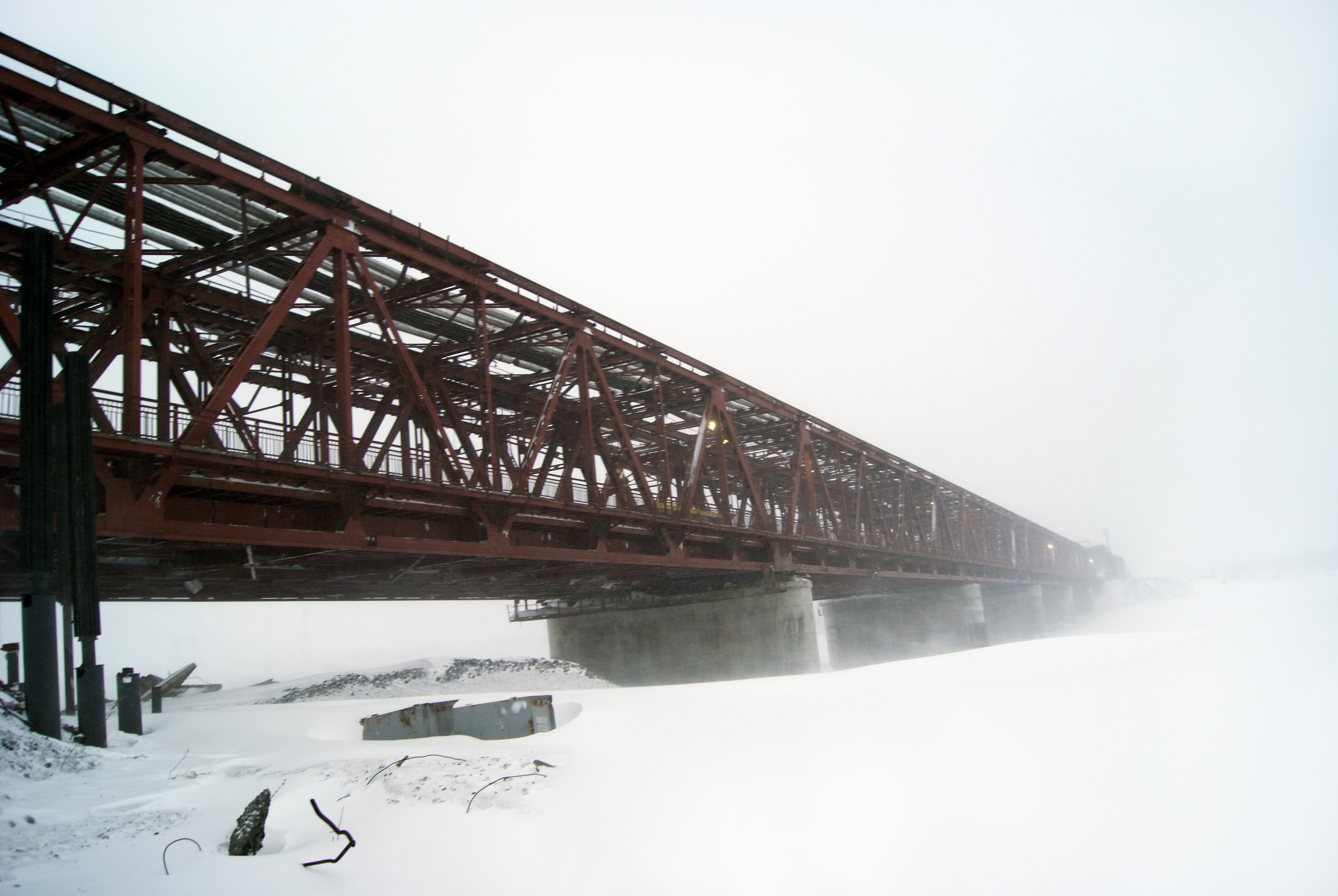 The bridge is located in 10 km. From Talnakh. On the river Norilskaya